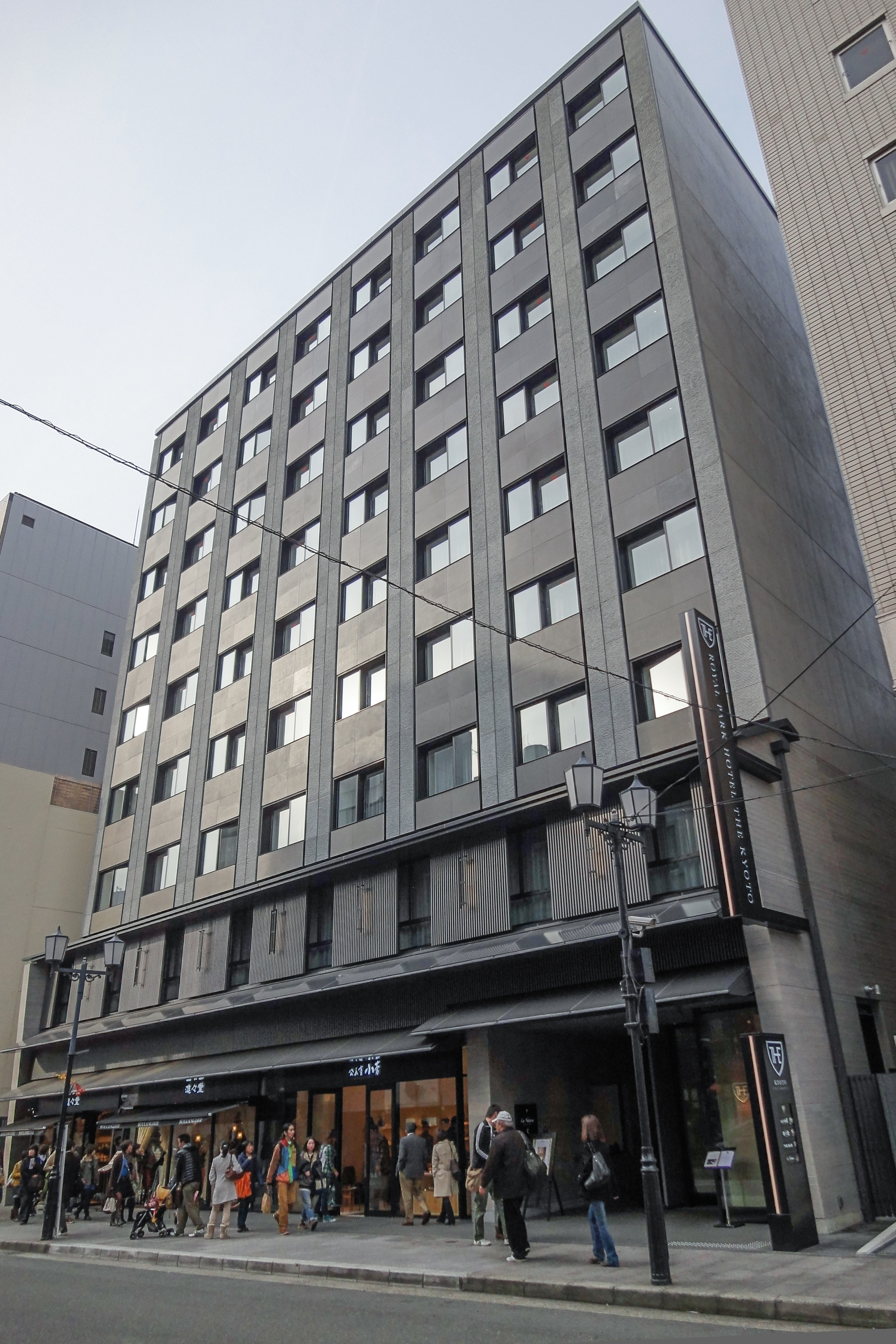 Photograph of Royal Park Hotel The Kyoto in Nakagyo-ku, Kyoto, Kyoto Prefecture, Japan.